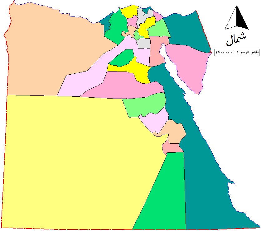 Map of the Governorates of Egypt — in 2011